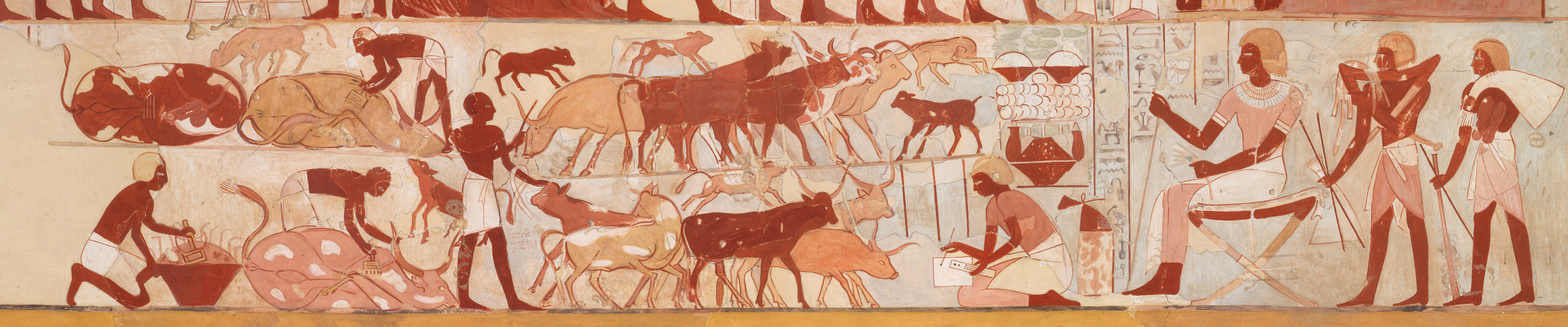 Facsimile, Nebamun (TT 90), estate activities